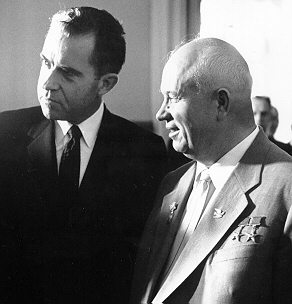 Vice President Richard M. Nixon and Soviet Premier Nikita Khrushchev at the Kremlin. NARA. Special Media Archives Services Division (Still Pictures). RG306-RMN-1-21